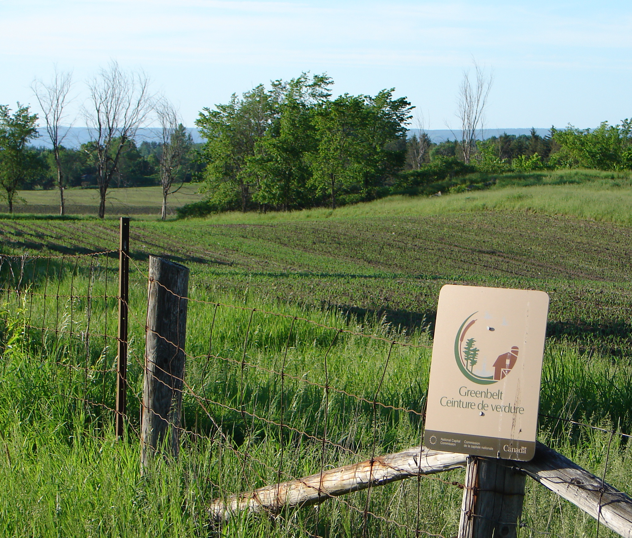 Greenbelt signage, Ottawa, Ontario, Canada